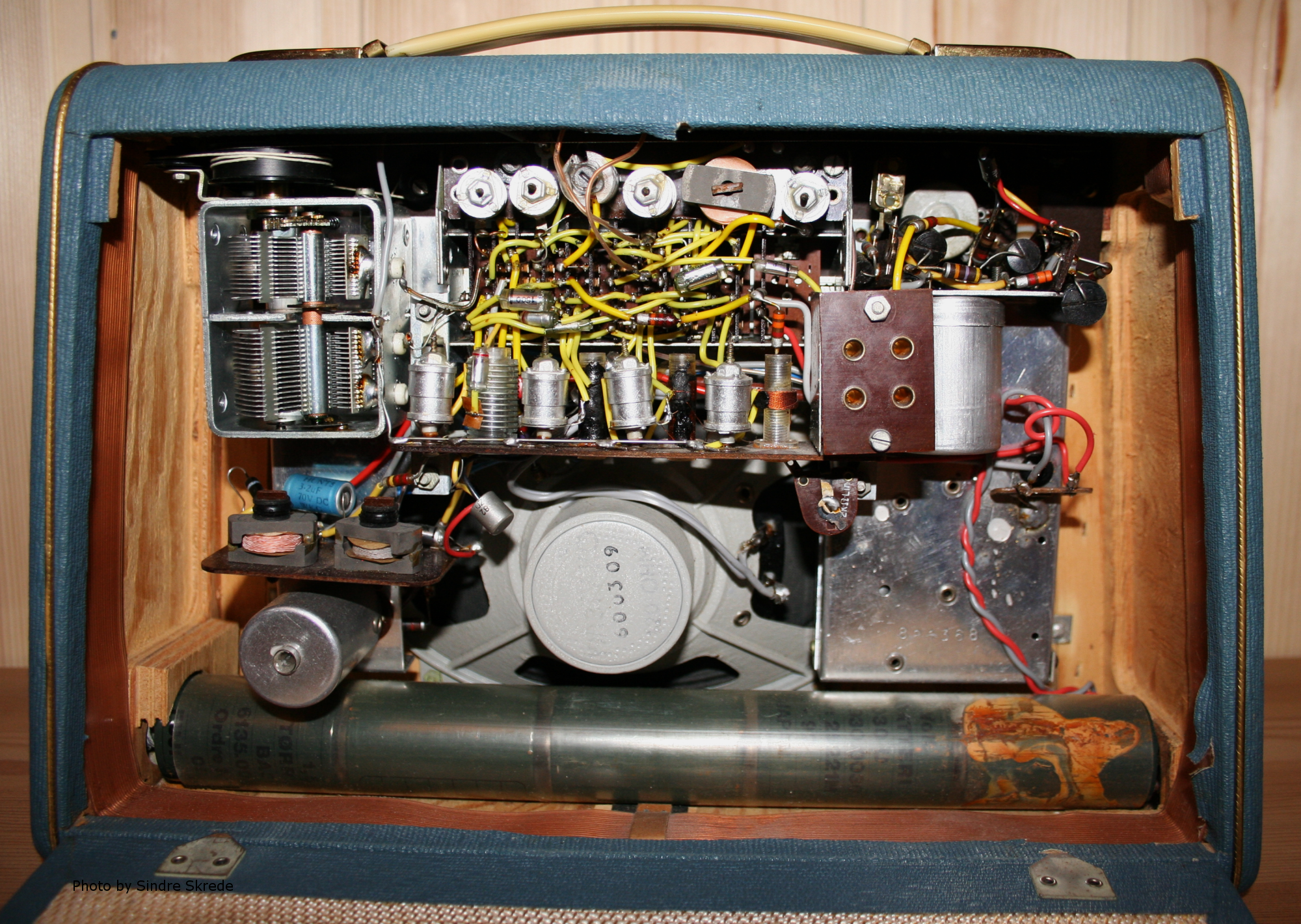 Back side, with the panel removed, of a Radionette Kurér Transi radio, produced in Norway by "Jan Wessel, Radionette Norsk Radiofabrikk" ("Jan Wessel, Radionette Norwegian Radiofactory") from 1958-1962. The unit cost was 458 NOK in 1958.